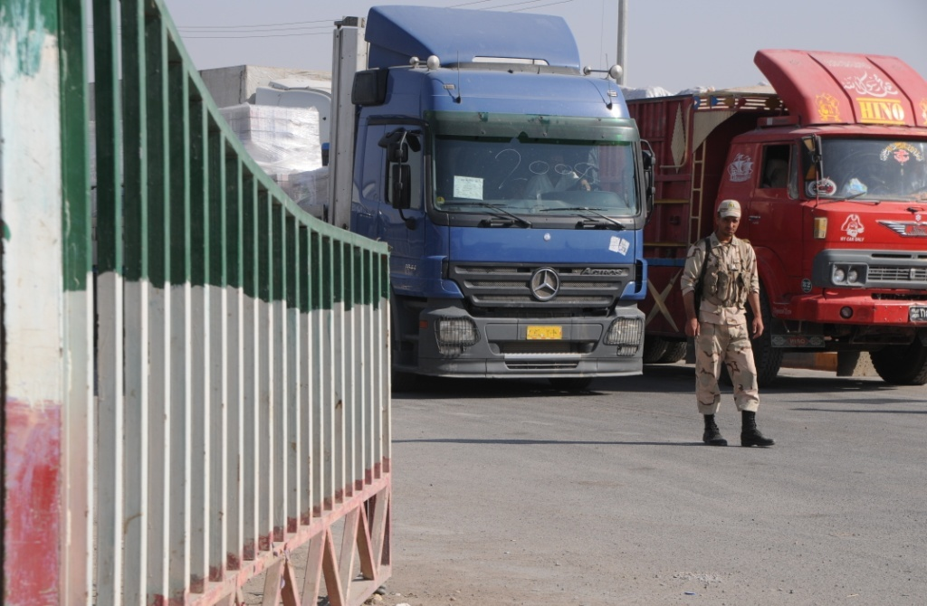 An Iranian border guard supervises the passage of trucks, full of manufactured goods and produce bound for the Shalamsha Port of Entry near Basra, Iraq, Nov. 18, 2010.